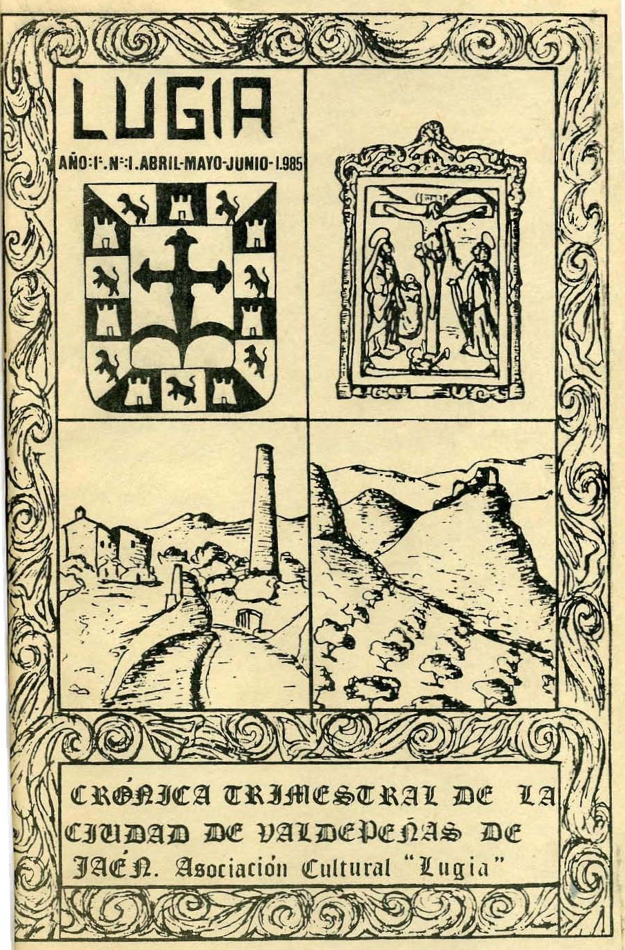 Cover of number 1 of 'Lugia' Quarterly Chronicle of the City of Valdepeñas de Jaén, 1985.